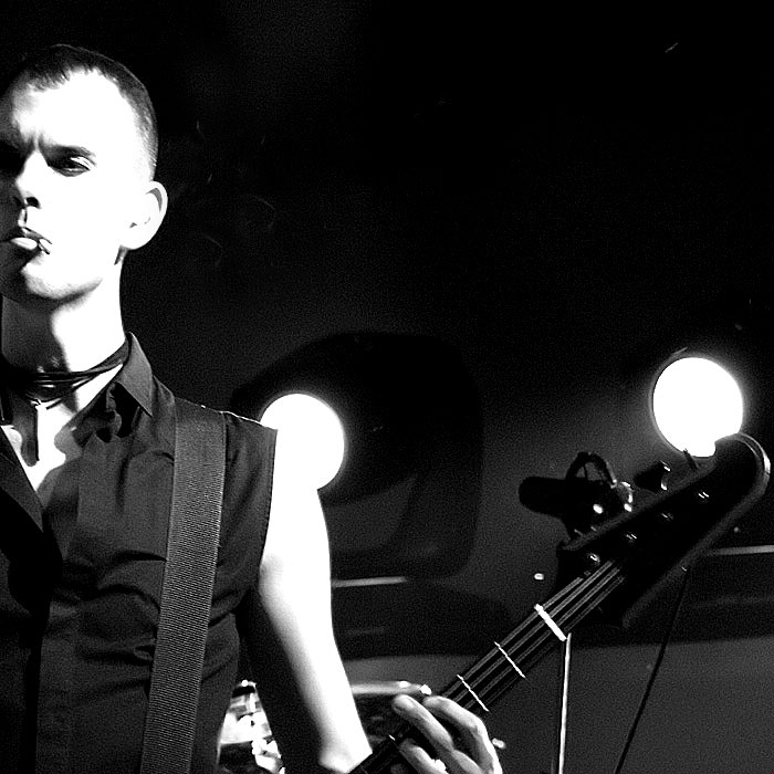 Stefan Olsdal from Placebo, playing at the colonia sonora, 27/06/06, collegno (italy)